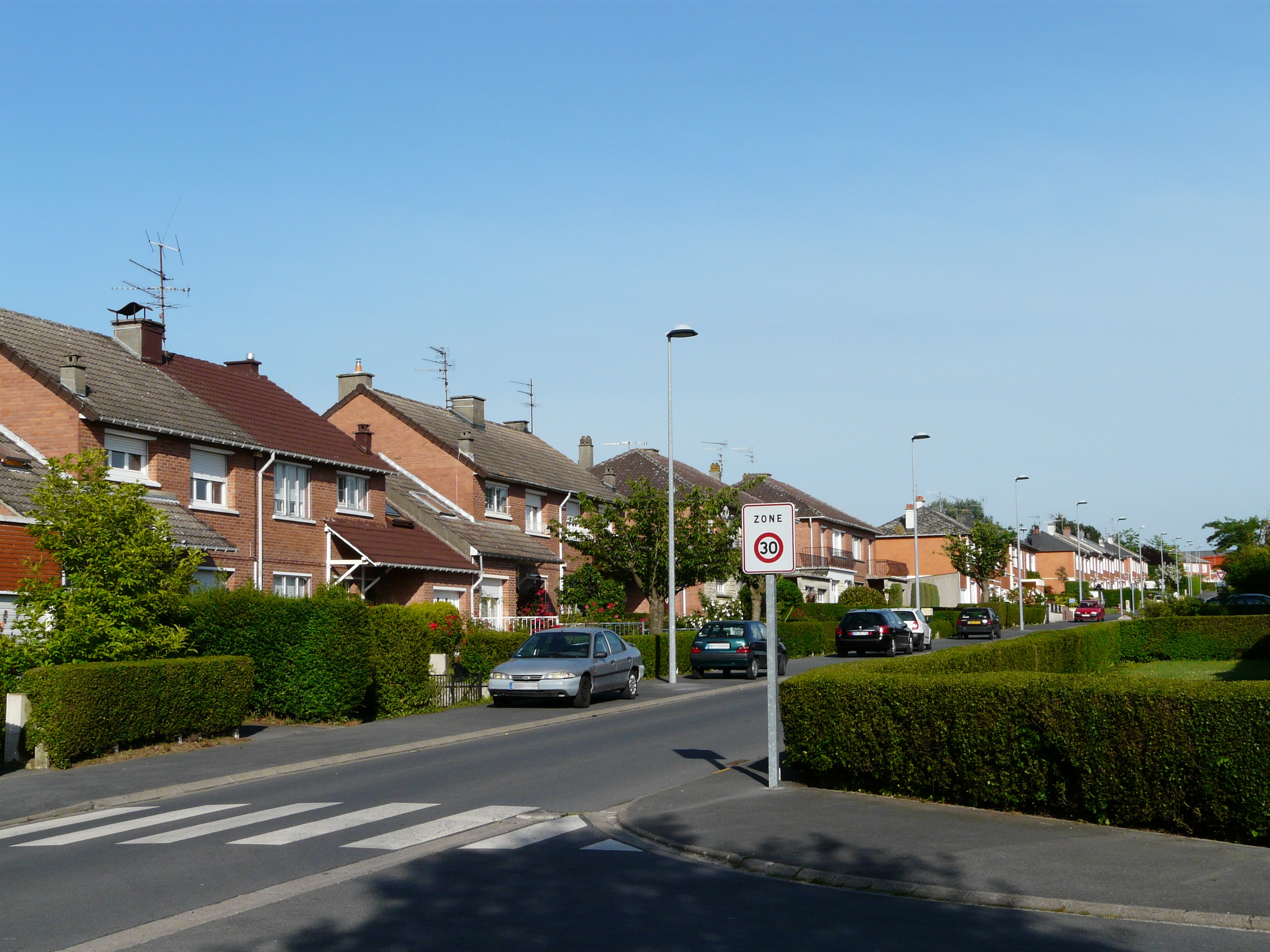 'Martin Martine' housing estate in Cambrai, built by Groupe Maison Familiale in the 1970s.